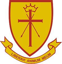 Bernard Mizeki College logo